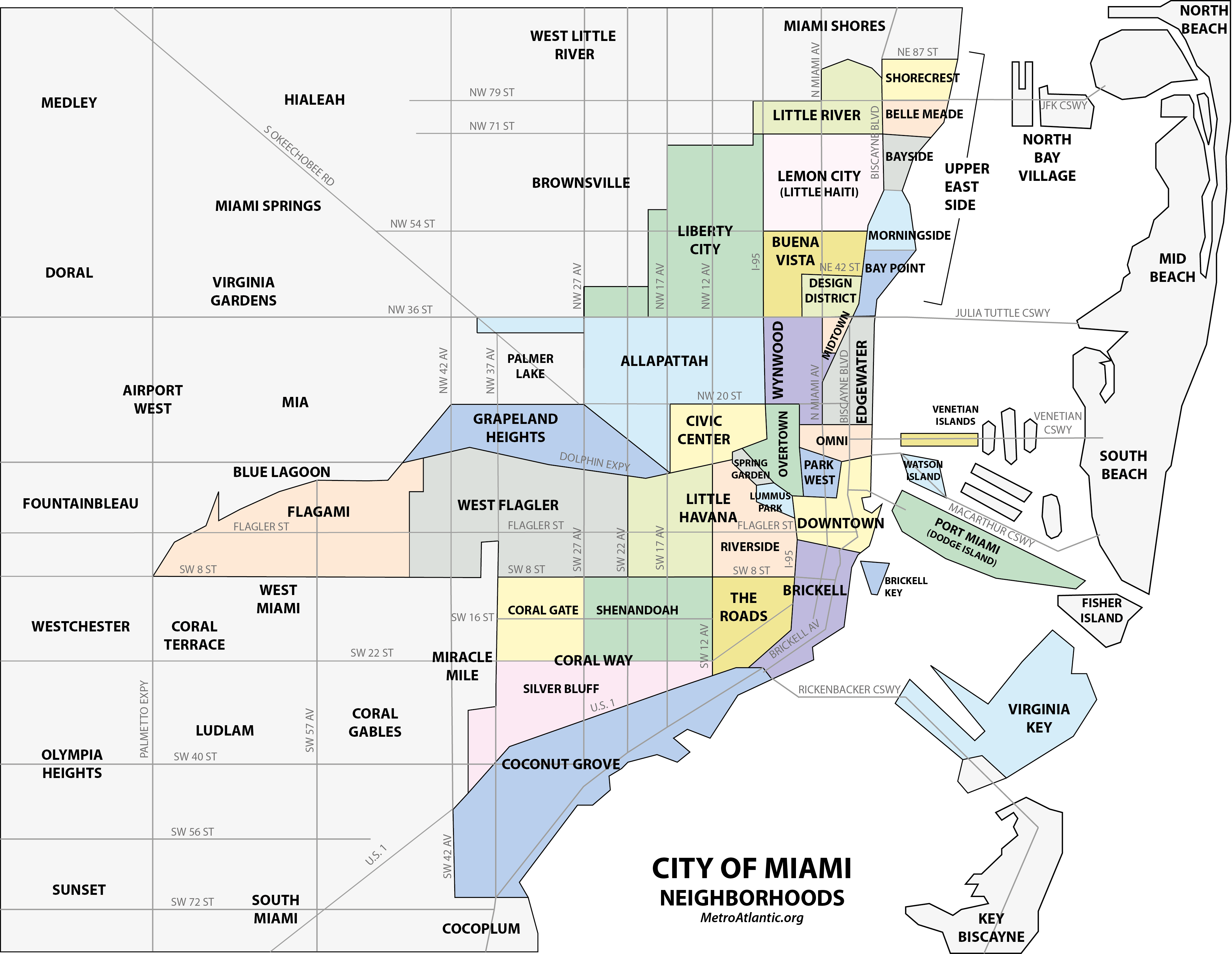 Map of the neighborhoods of the City of Miami, Florida, United States[1][2][3][4][5][6][7][8] References ↑ ↑ ↑ ↑ ↑ ↑ ↑ ↑